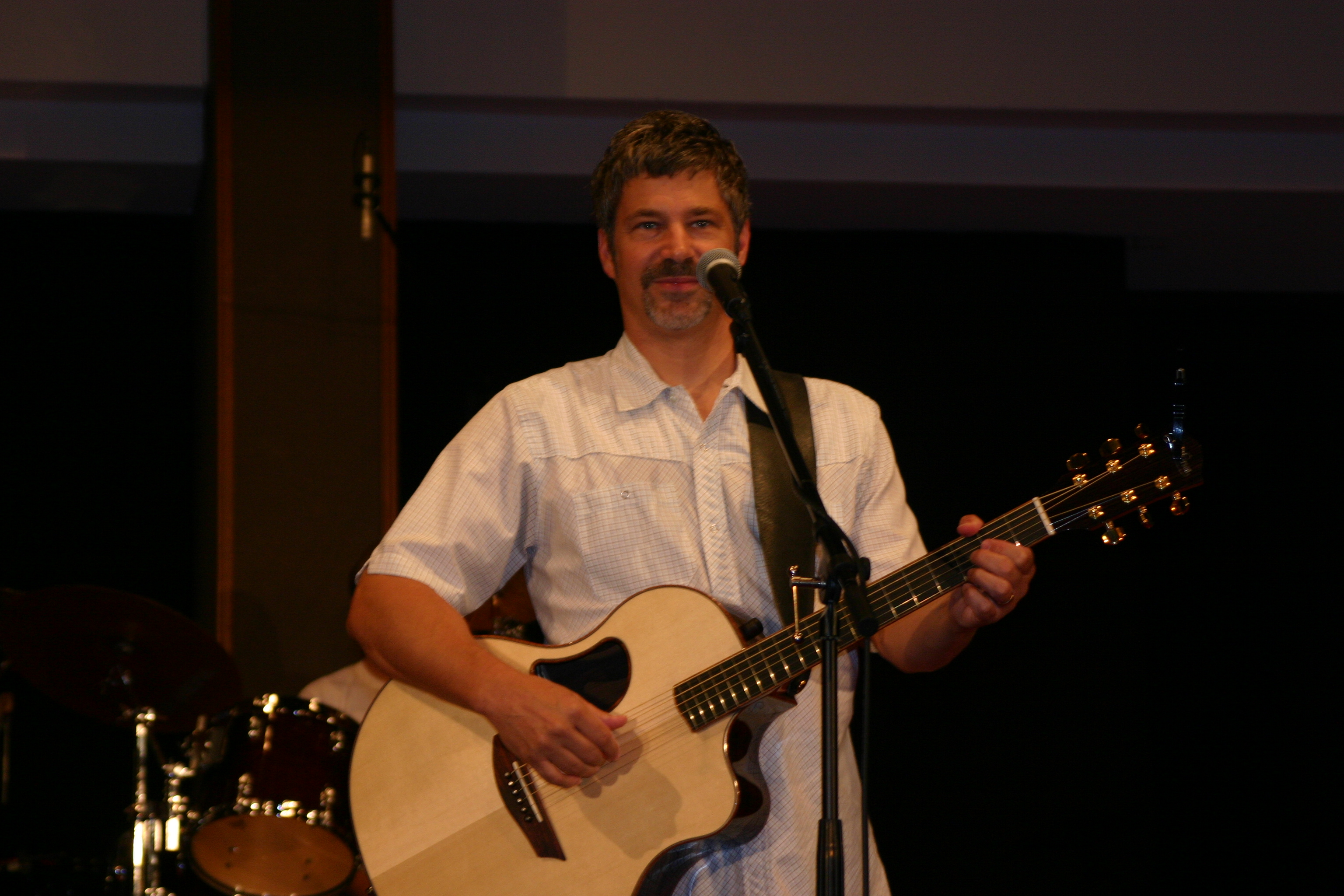 Paul Baloche in concert at St. John Lutheran Church-Ellisville, MO.